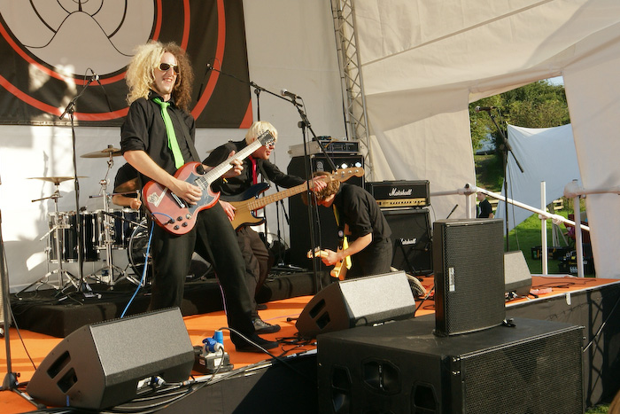 MIKE TV